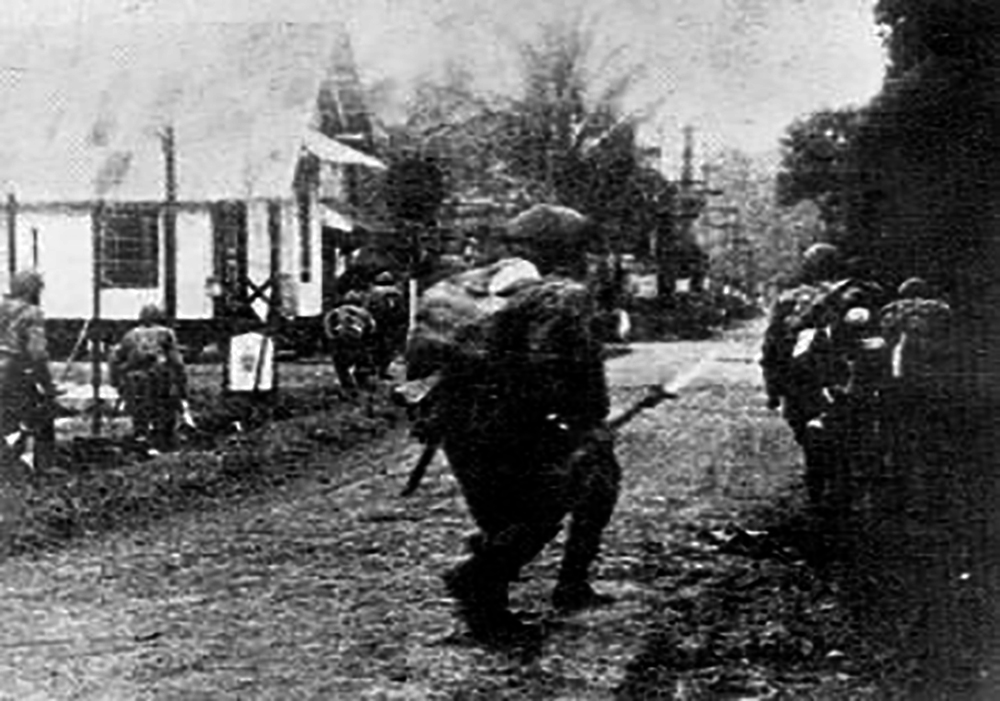 Battle of Menado: IJN Paratroopers of the Yokosuka 1st SNLF in street fighting in Menado